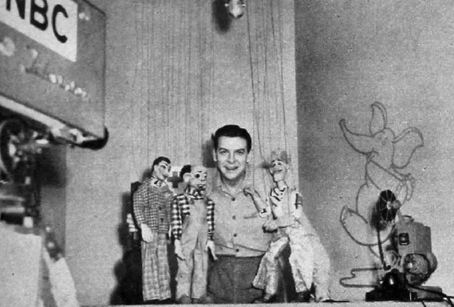 Photo of the Howdy Doody Show from 1948 when the puppets used on the program were those created by Frank Paris. Howdy Doody is seen on the photo's right. In this same year, Paris and Bob Smith had an argument, with Paris leaving the NBC studios with his puppets. This had happened before, leaving the live children's program without its star and forcing Smith to improvise excuses. The network decided to let Paris stay away permanently. They quickly came up with a storyline that Howdy Doody was on the campaign trail for the 1948 elections, as he had been running for president. NBC also put together a map so Howdy's whereabouts could be tracked on television. NBC then used the time to hire a puppet maker named Velma Dawson to create a more photogenic Howdy Doody, which is the one most people remember.